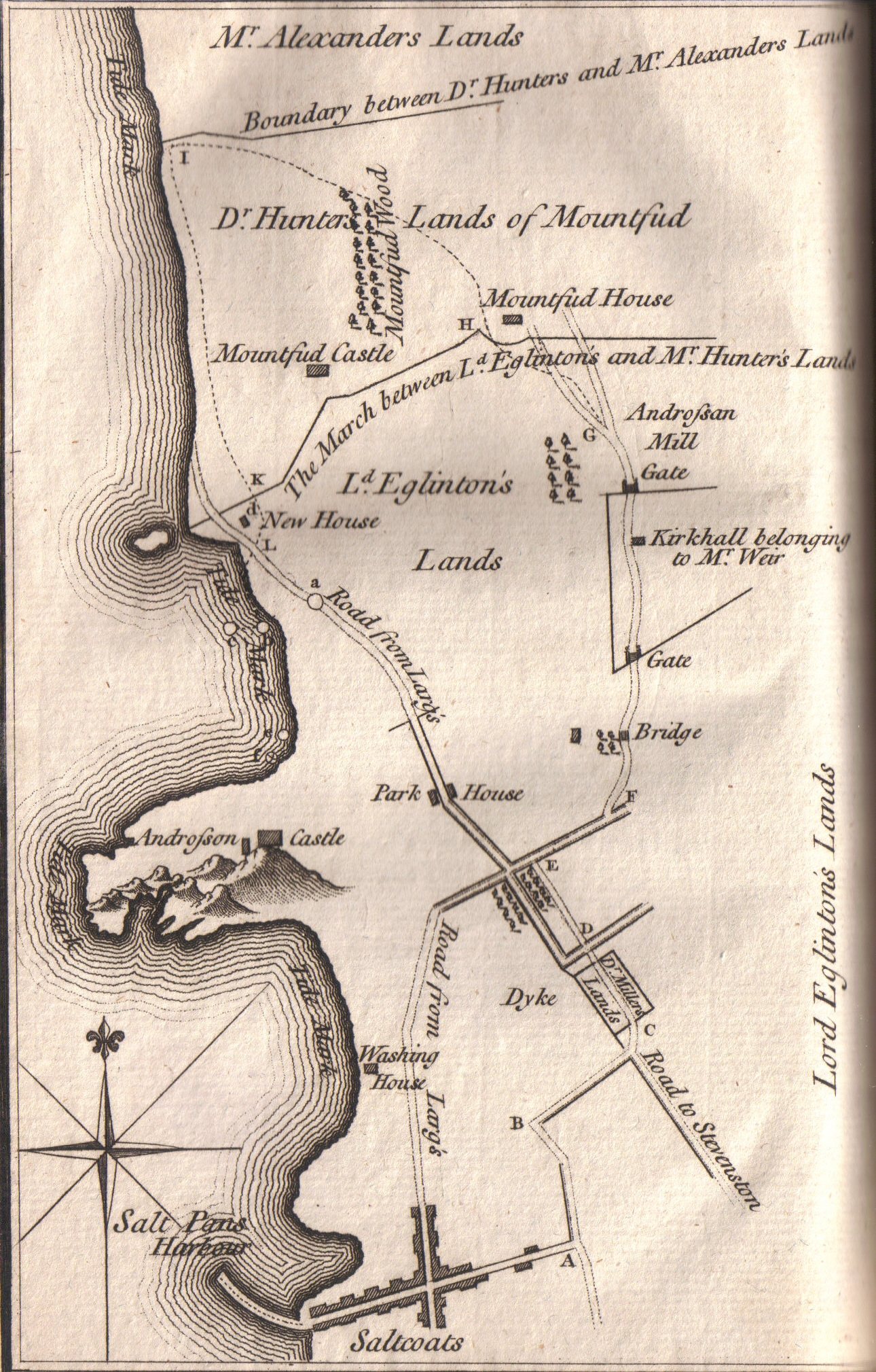 Map of Montfode in 1769, North Ayrshire, Scotland